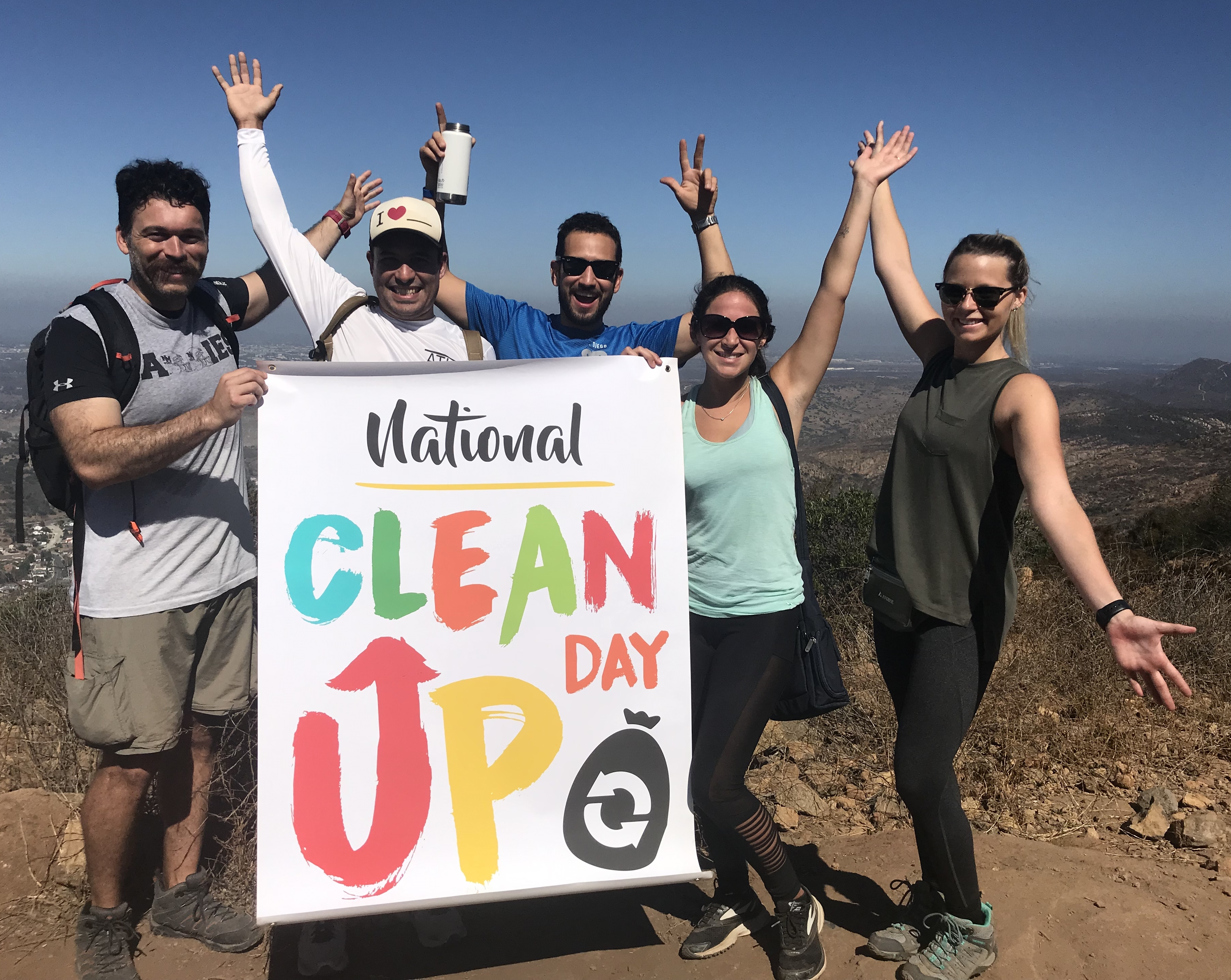 National CleanUp Day CleanUp on Mountain